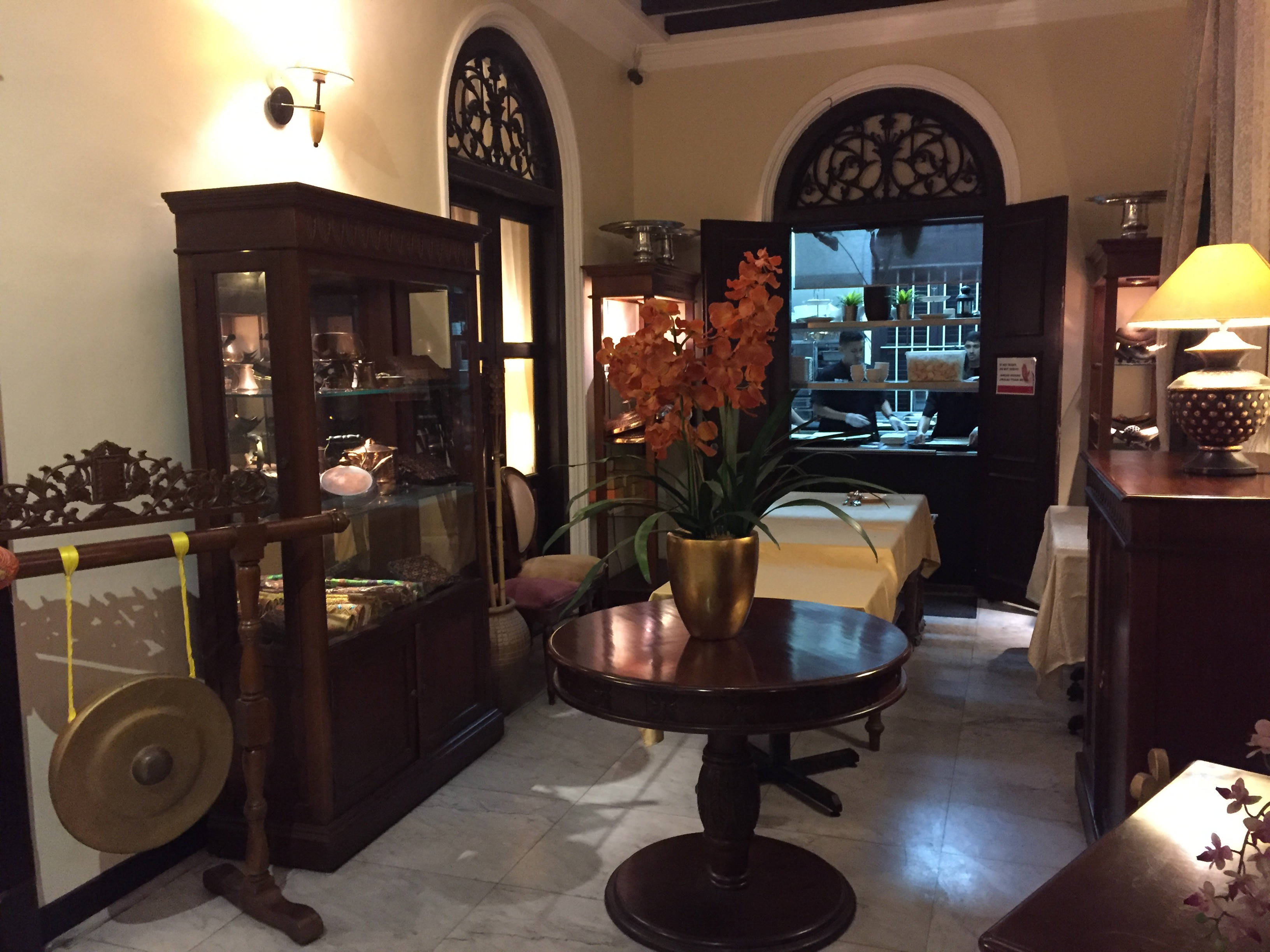 Mamanda restaurant in Gedung Kuning, Singapore.